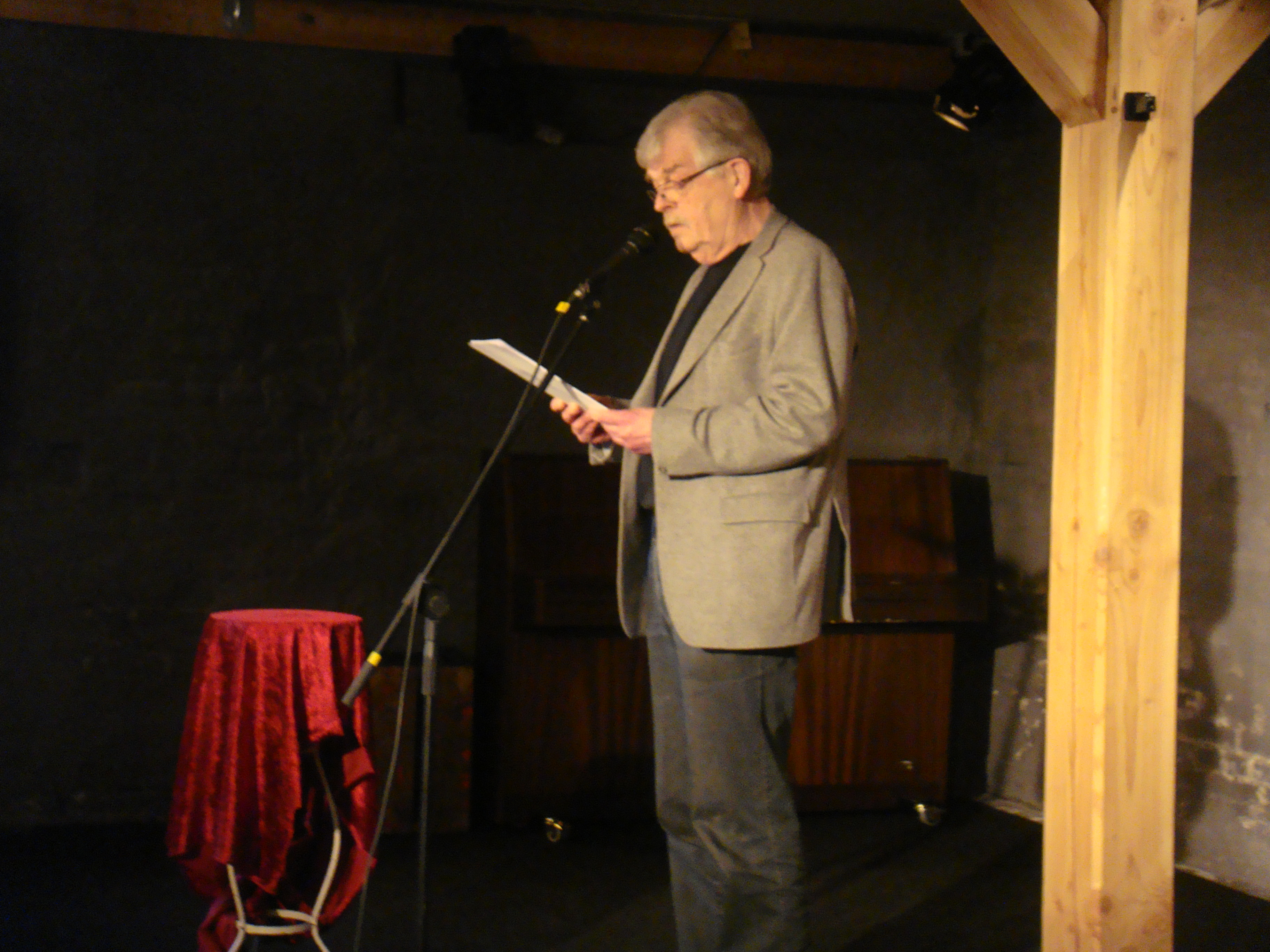 Danish poet Peter Poulsen